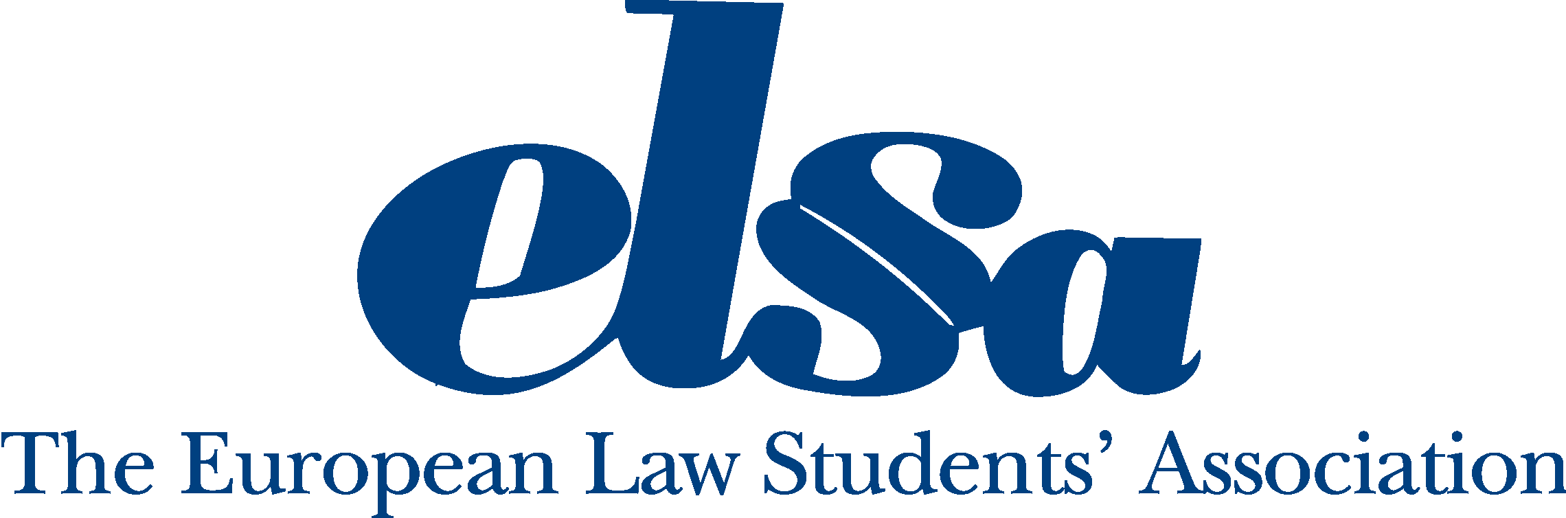 To be used for Wikipedia articles on ELSA and related projects